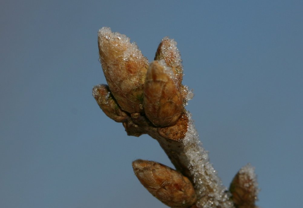 Description: Quercus petraea, buds, with frost. Source: Own photo, taken in Jutland, Mar 2006. Author: Sten Porse